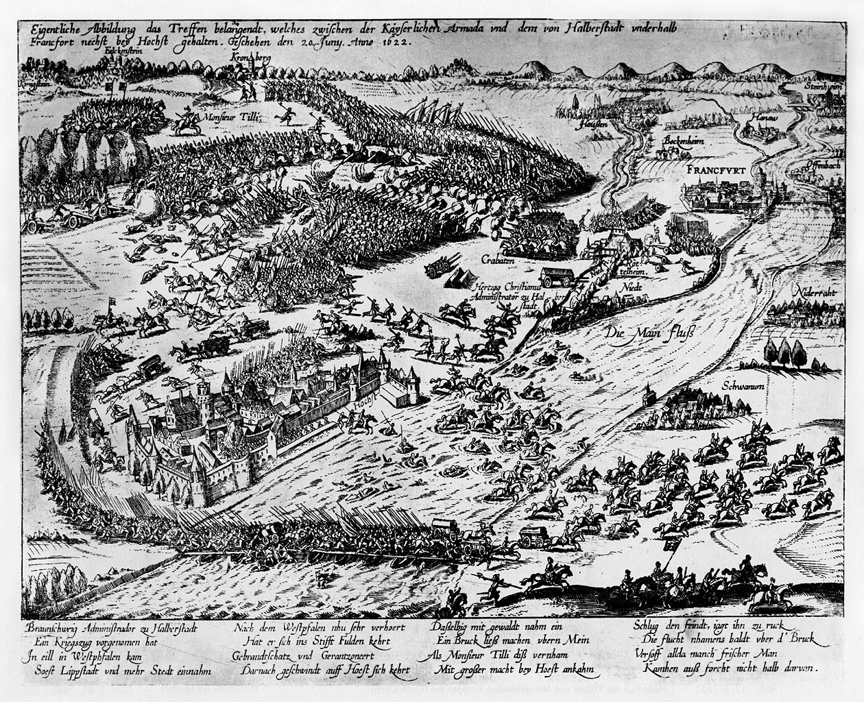 Actual depiction concerning the meeting between the Imperial army and the one of Halberstadt, below Frankfurt next to Höchst. Occured on 20 June, 1622.